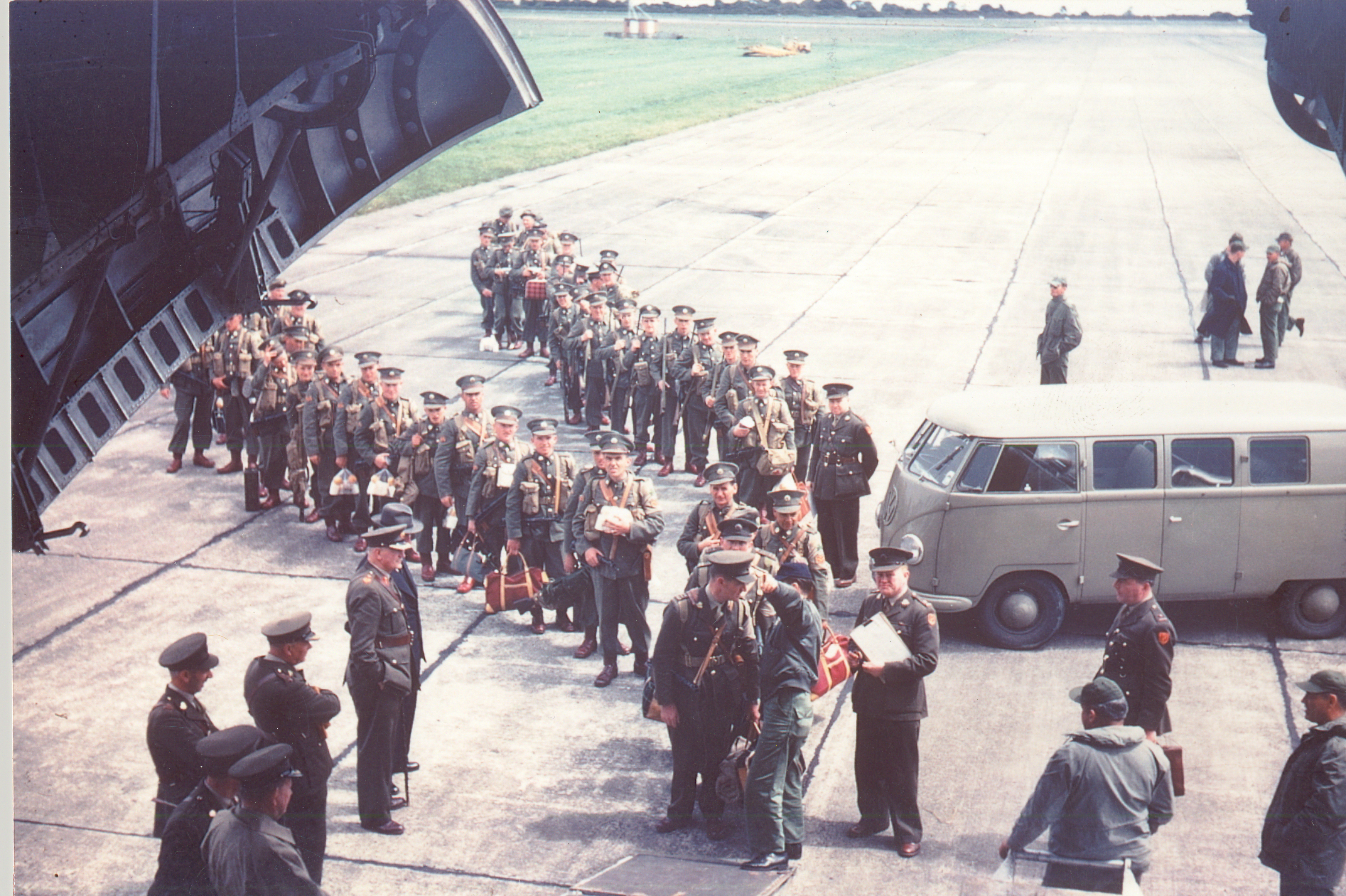 Congo Airlift Baldonnel 32nd 1960